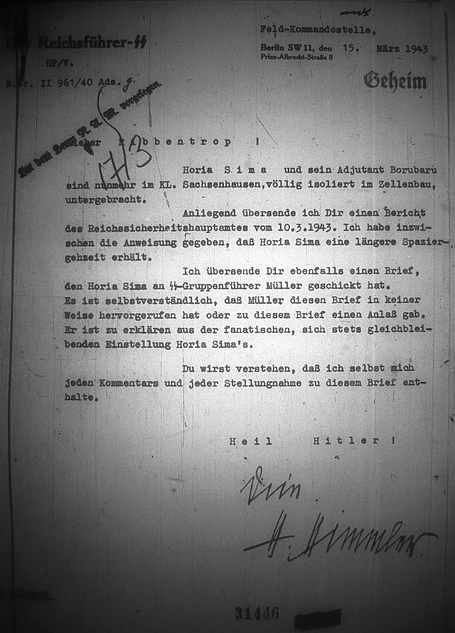 Ordinul lui Heinrich Himmler privind regimul de detenție al lui Horia Sima